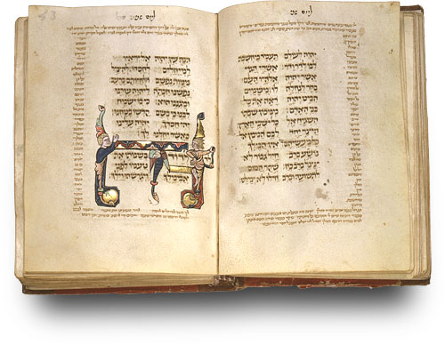 Psalm 34 - Of David, when he changed his demeanour before Abimelech who drove him away, and he departed. 'I will bless the Lord at all times.'